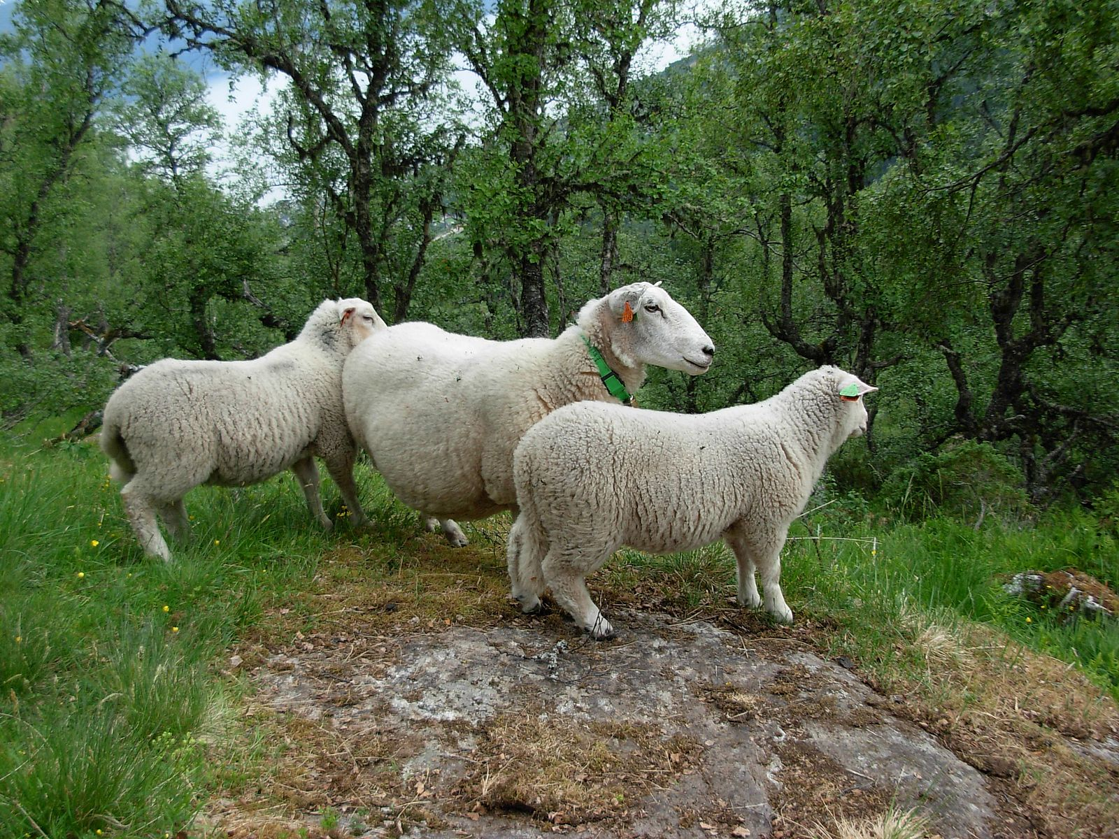 Norwegian sheep called Dalasau (Dala-sheep). Around 40% of the sheep in Norway are Dalasau (2006).